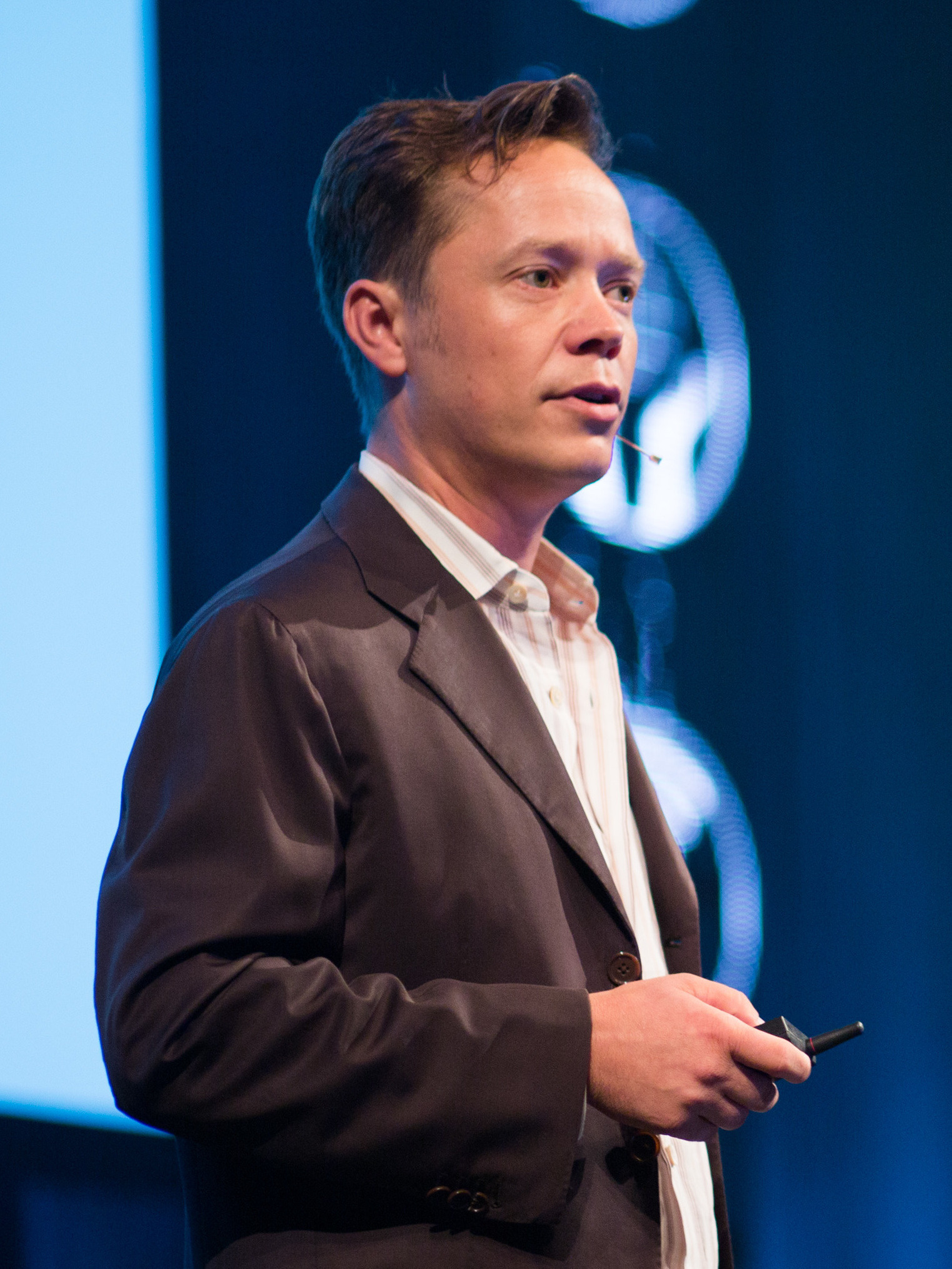 The SingularityU The Netherlands Summit 2016 took place on September 12 & 13 in Amsterdam, The Netherlands. The Netherlands Summit was aimed at bringing awareness about exponential technologies and their impact on business and policy. The theme of the summit was "Reality Check - Fast-Forward into our Future". For more information